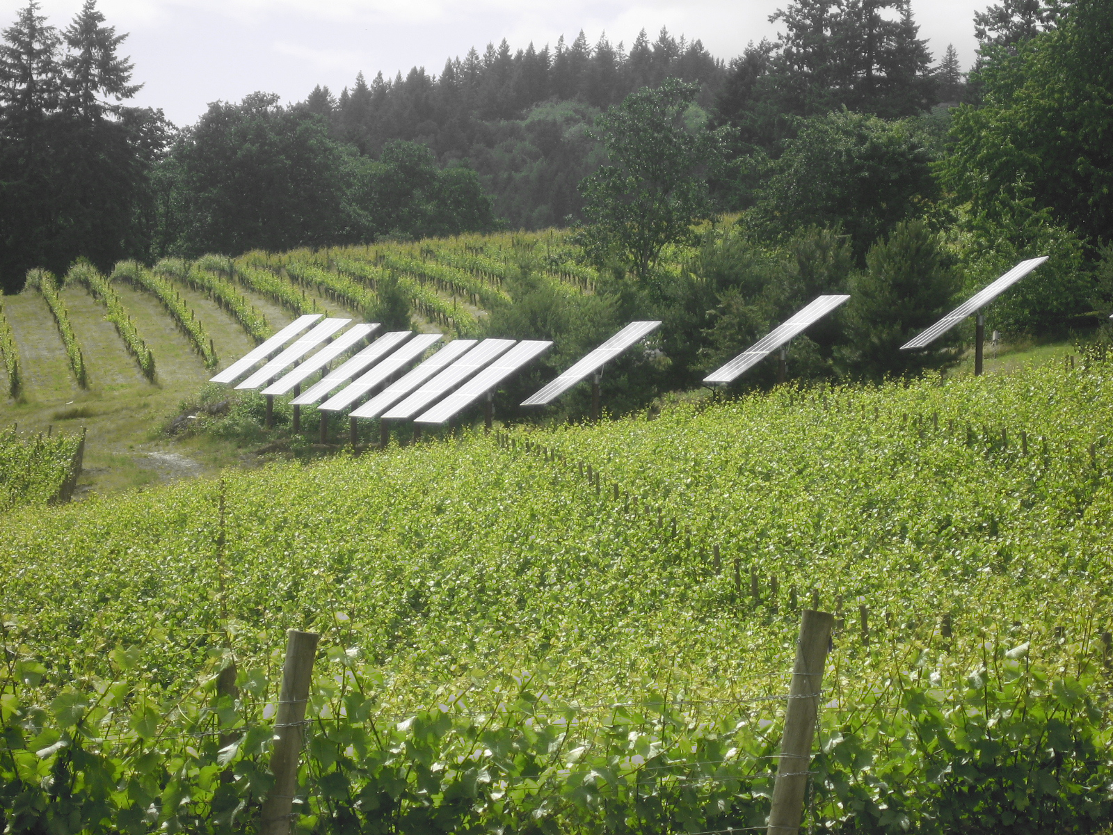 Oregon vineyard in the Willamette Valley wine region utilizing solar power.